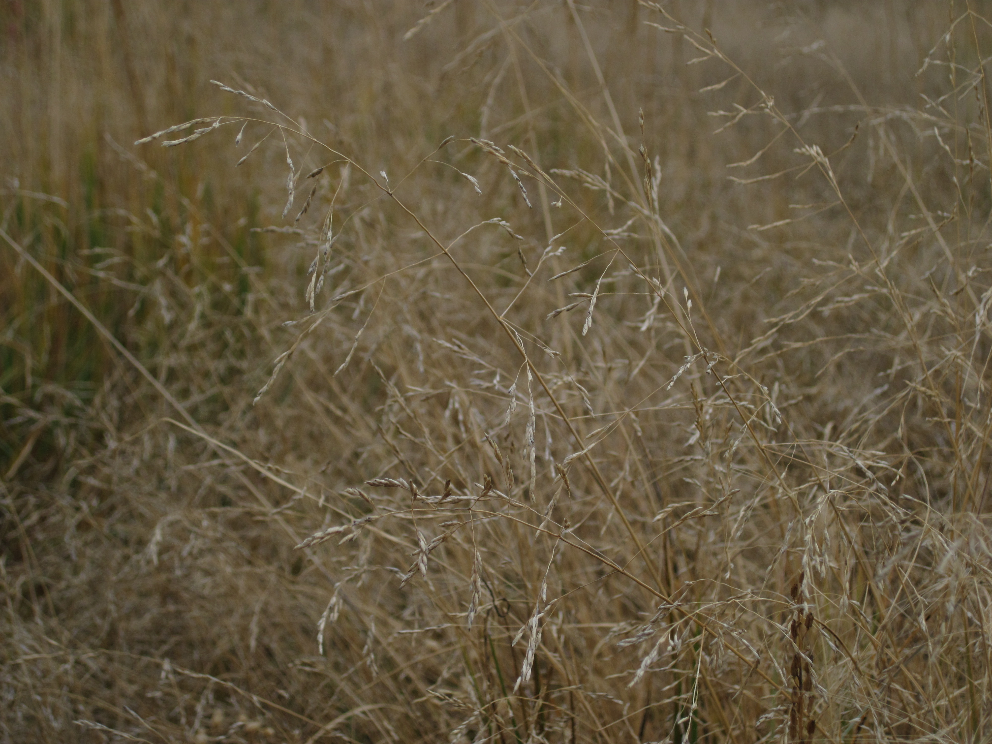 The open panicles with widely divergent branches are characteristic of this Puccinellia, as are the small spikelets about at about 2 mm long or less. Photo by Scott Frazier, Confluence Consulting, Inc.